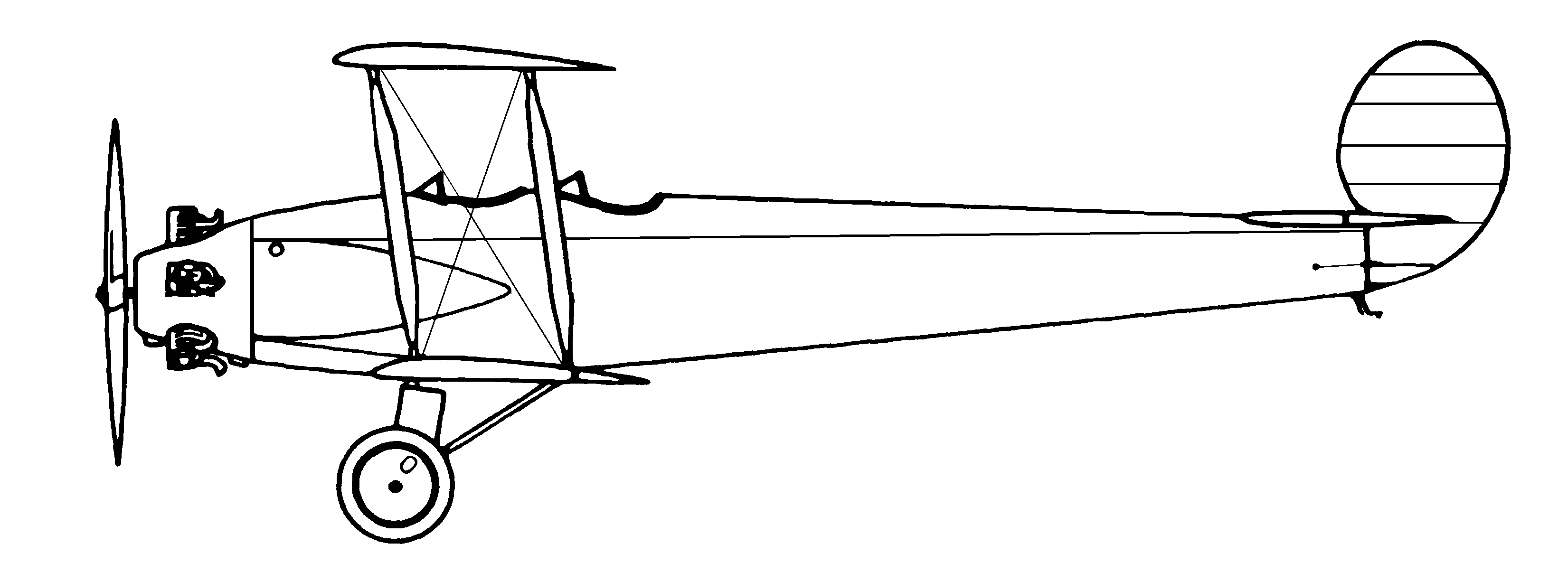 Avro 581 Avian Drawing left side Author: Christoph Grimlowski/Germany